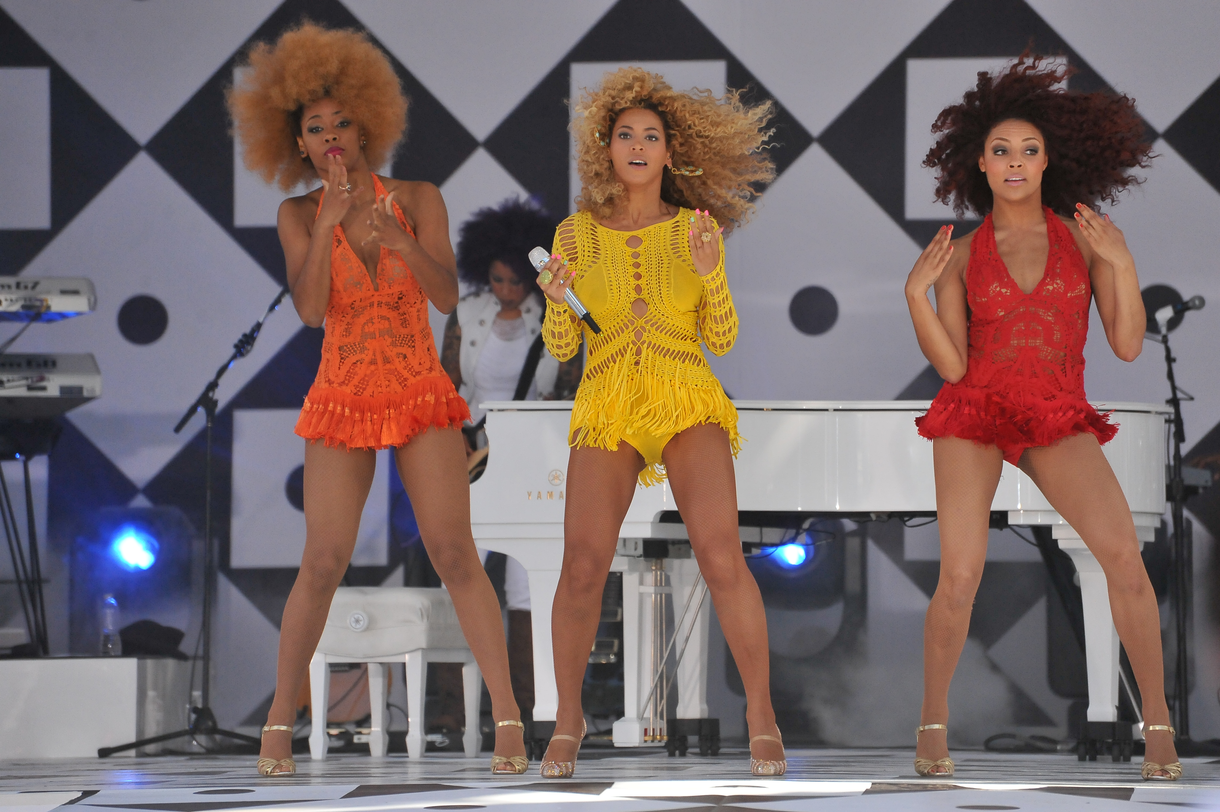 Beyoncé Knowles performing on Good Morning America